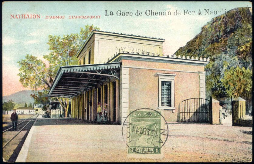 Nafplion, Greece. The metre gauge railway station of SPAP. Colorized photo postcard with a 1 lepton definitive stamp of 1911 cancelled with "ΝΑΥΠΛΙΟΝ" postmark on 1911-09-15.